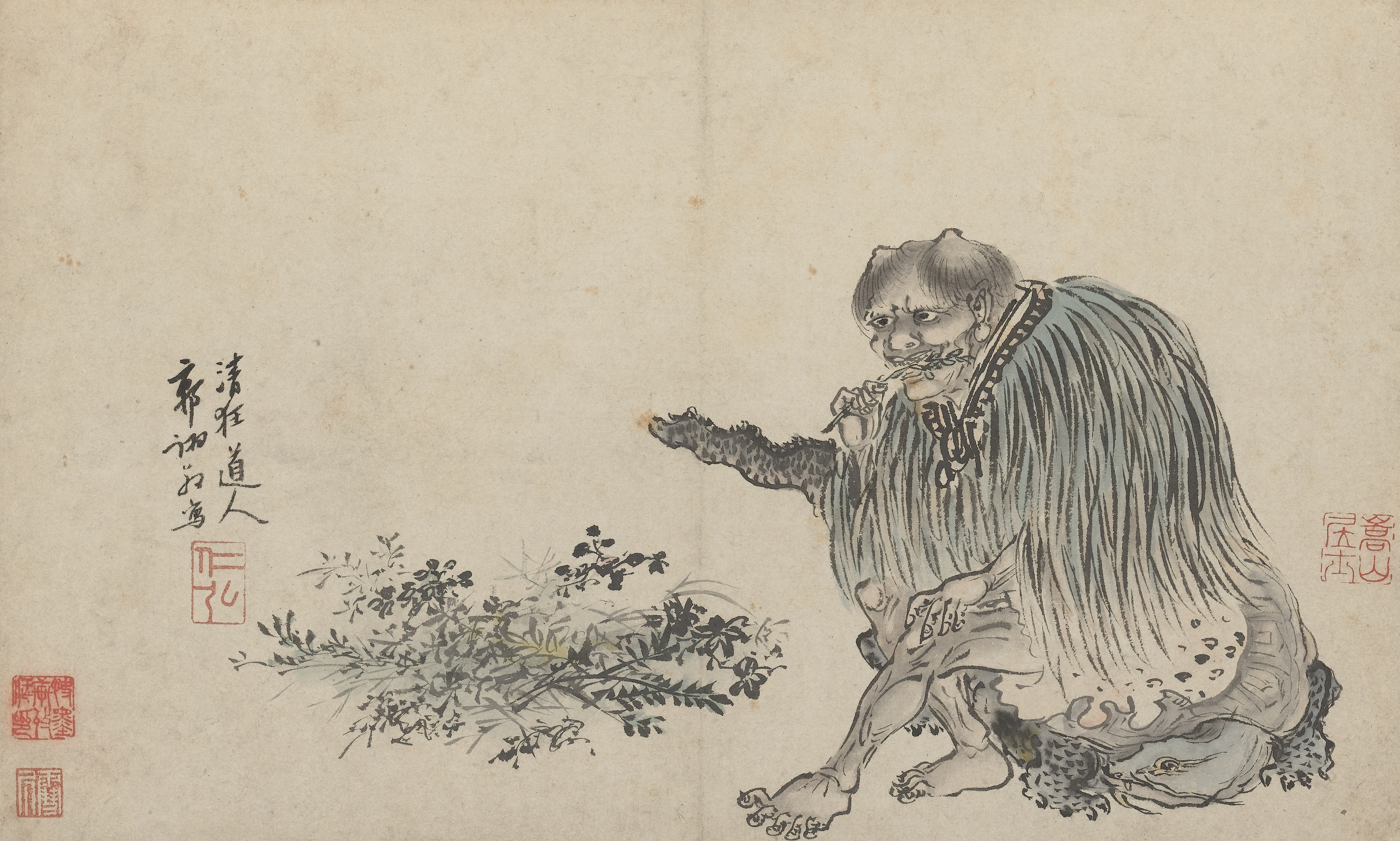 This painting depicts Shennong as he chews a branch, illustrating his role as healer.